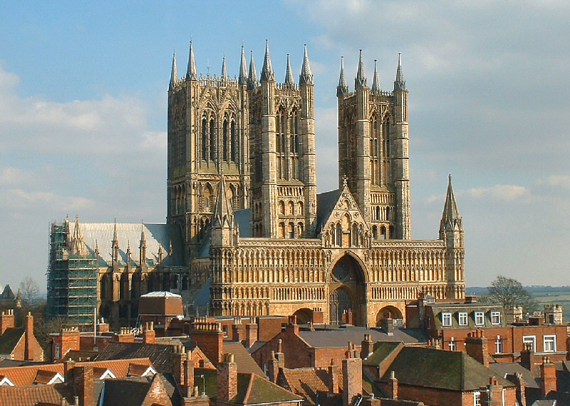 The West Front of Lincoln Cathedral seen from the Castle wall.